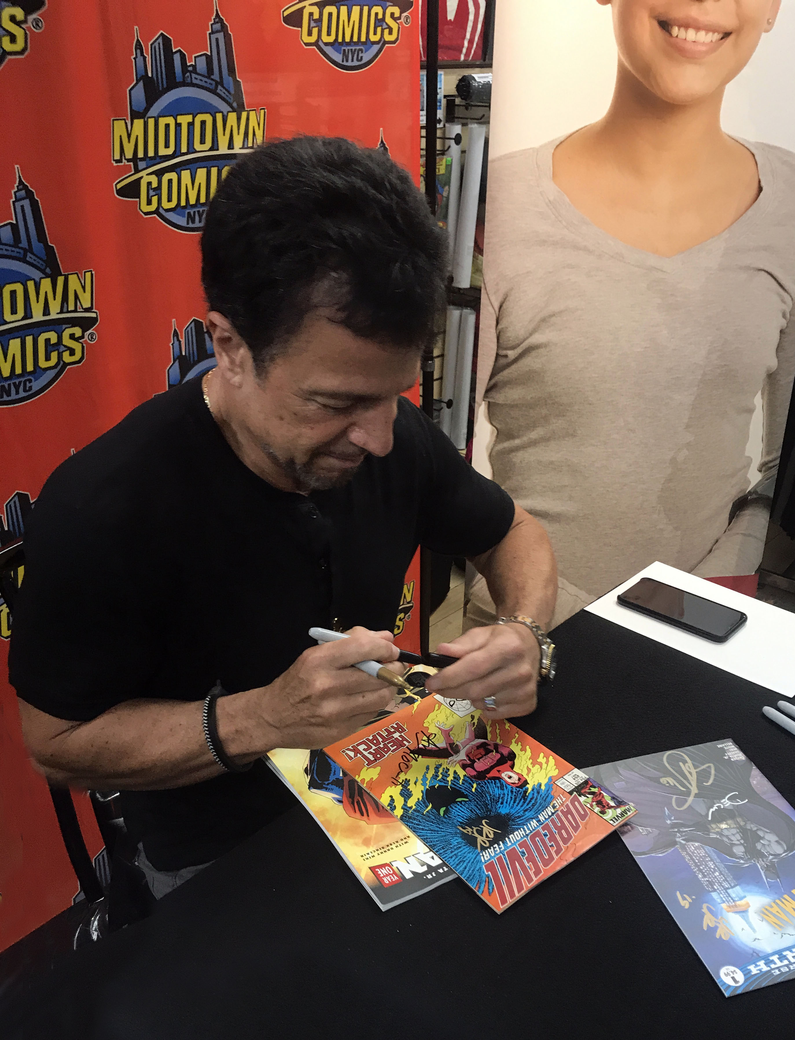 Comics artist John Romita Jr. at a June 20, 2019 book signing for Superman: Year One #1 (August 2019) at Midtown Comics Downtown in Lower Manhattan. In the photo, Romita is signing a copy of Daredevil. At right is a poster for St. Jude’s Children’s Research Hospital, to which $2.00 of each signed copy of Superman: Year One was donated, as part of the store’s arrangement with Romita. This photo was created by Luigi Novi. It is not in the public domain, and use of this file outside of the licensing terms is a copyright violation.